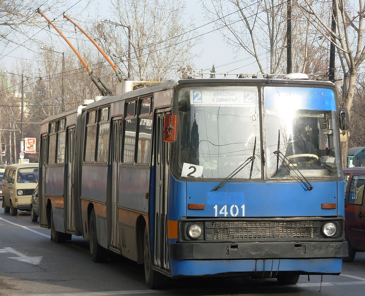 Ikarus 280T trolleybus in Sofia, Bulgaria.